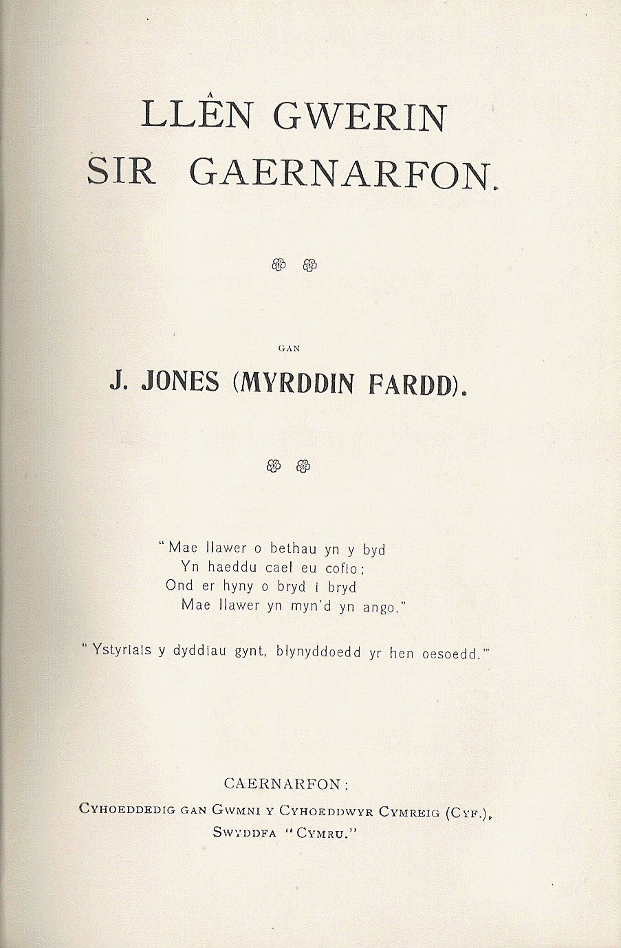 Titlepage of Llên gwerin Sir Gaernarfon, a collection of the folklore and traditions of northern Gwynedd, Wales, by John Jones (Myrddin Fardd) (Caernarfon, 1908).